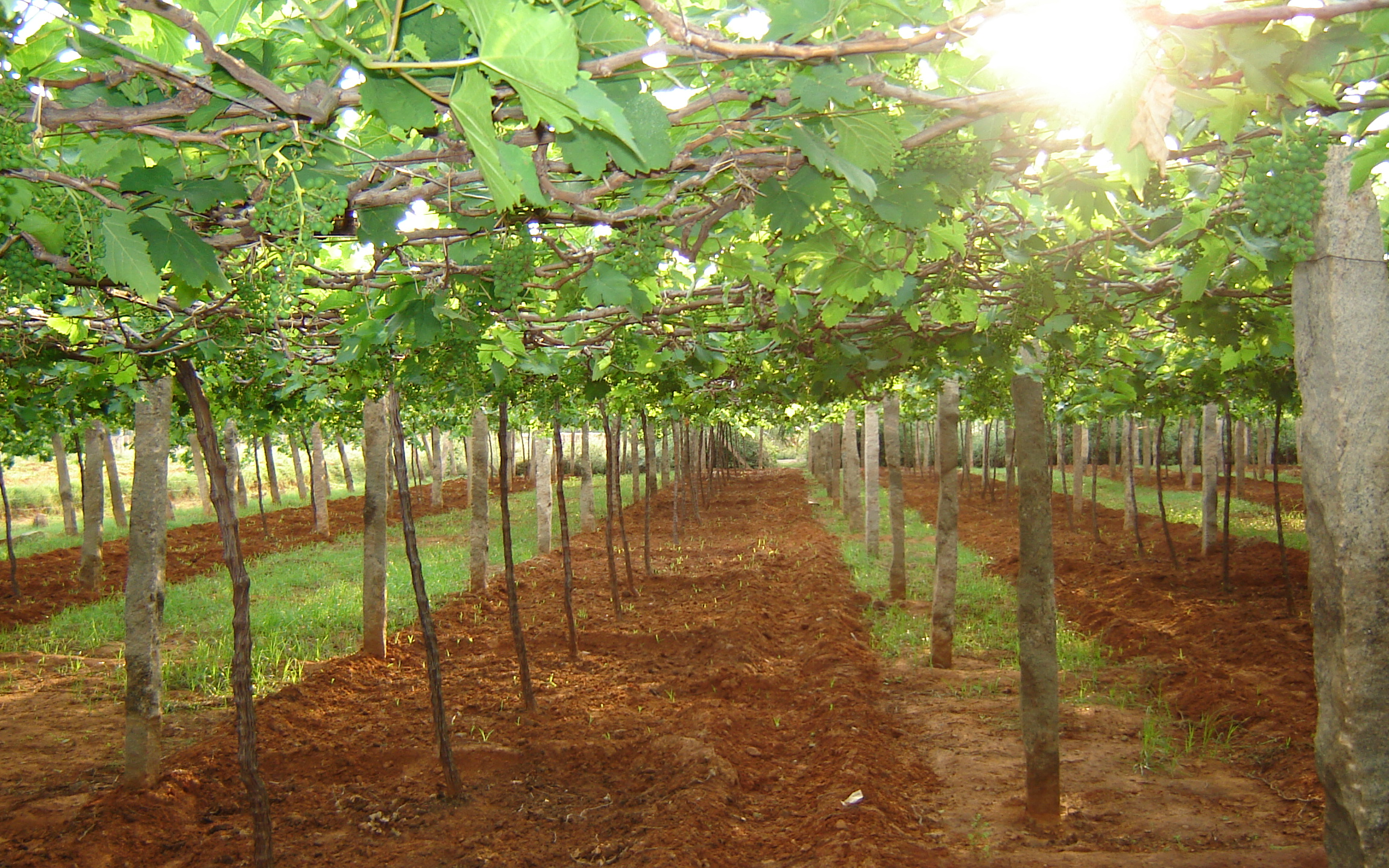 Grape cultivation in either SukkangalPatti or Odaipatti, Tamil Nadu, India.